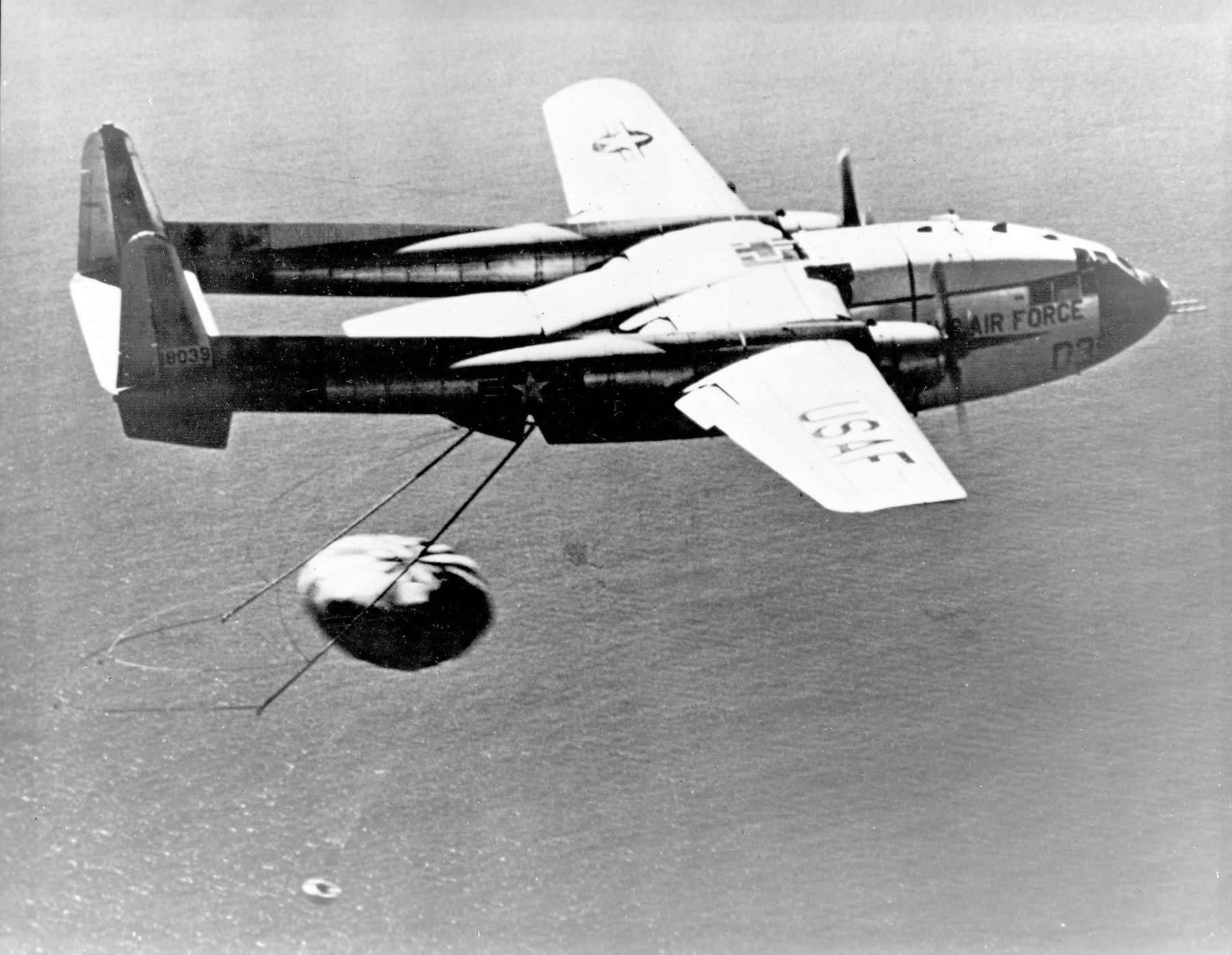 1960's -- U.S. Air Force C-119J recovers a CORONA Capsule returned from Space. The C-119J was specially modified for the mid-air retrieval of space capsules re-entering the atmosphere from orbit. On August 19, 1960, this aircraft made the world's first midair recovery of a capsule returning from orbit when it "snagged" the parachute lowering the Discoverer XIV satellite at 8,000 feet altitude 360 miles southwest of Honolulu, Hawaii.